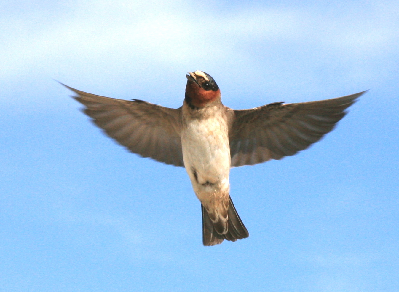 A Cliff Swallow in Santa Barbara, California, USA.